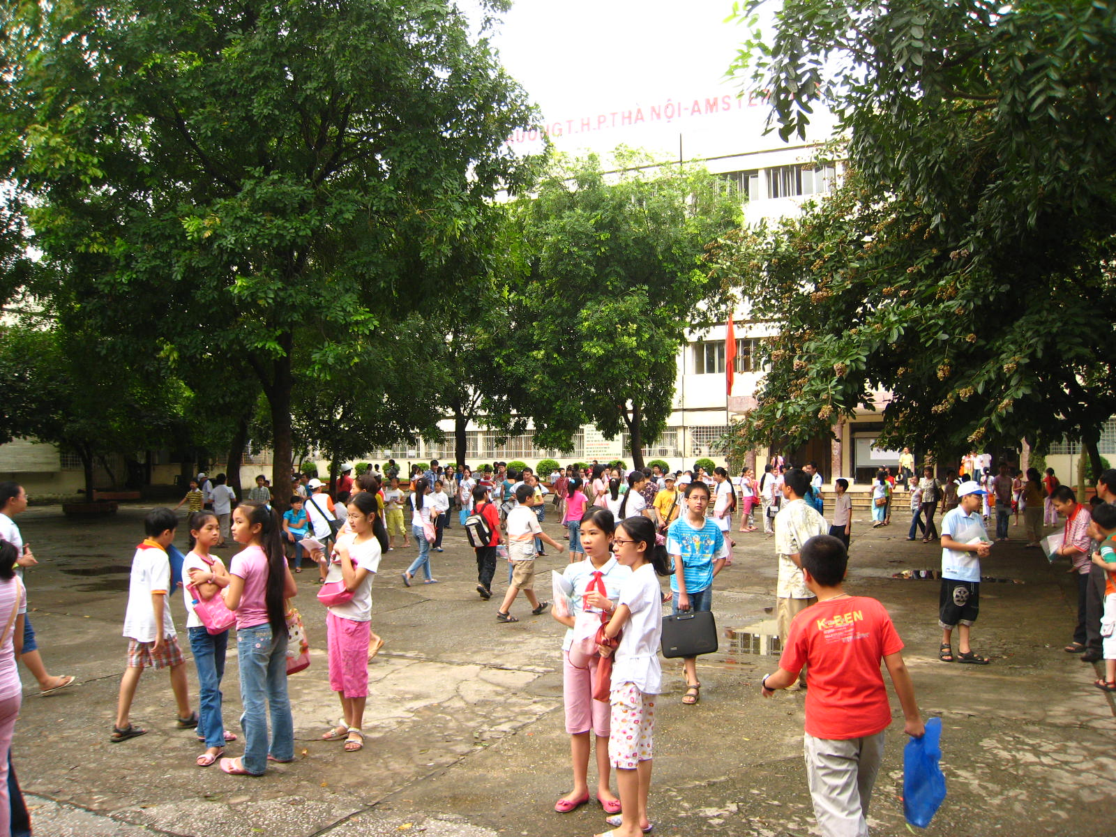 Hanoi - Amsterdam High School during the entrance exam results announcement for secondary students, school year of 2008-2009 (old campus)